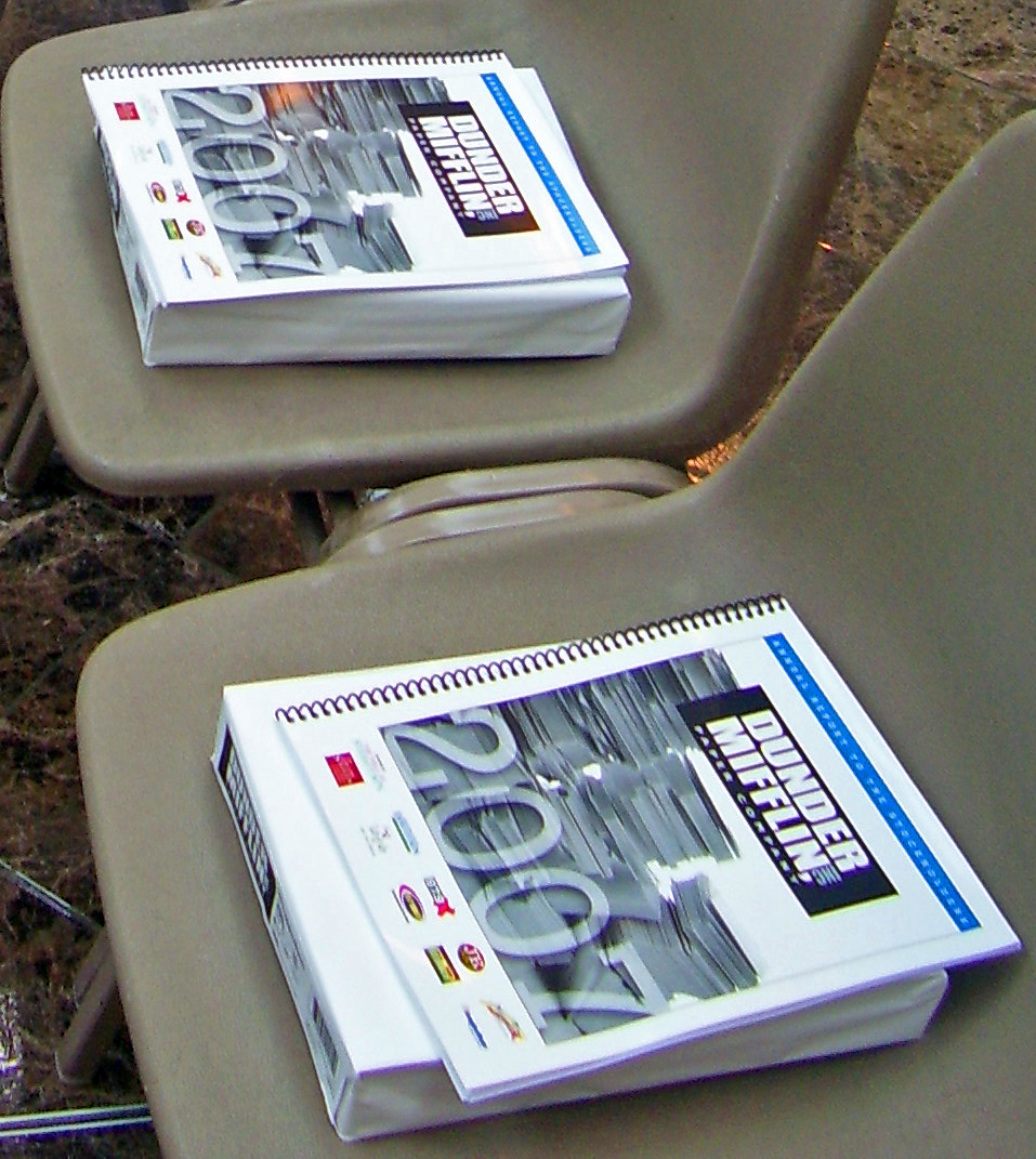 Chairs with Dunder Mifflin "annual report" and a ream of paper for "uncommon stockholders' meeting" in Mall at Steamtown at first annual The Office convention, October 2007, Scranton, PA, USA